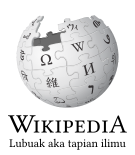 A logo for Wikipedia in the Minangkabau language.